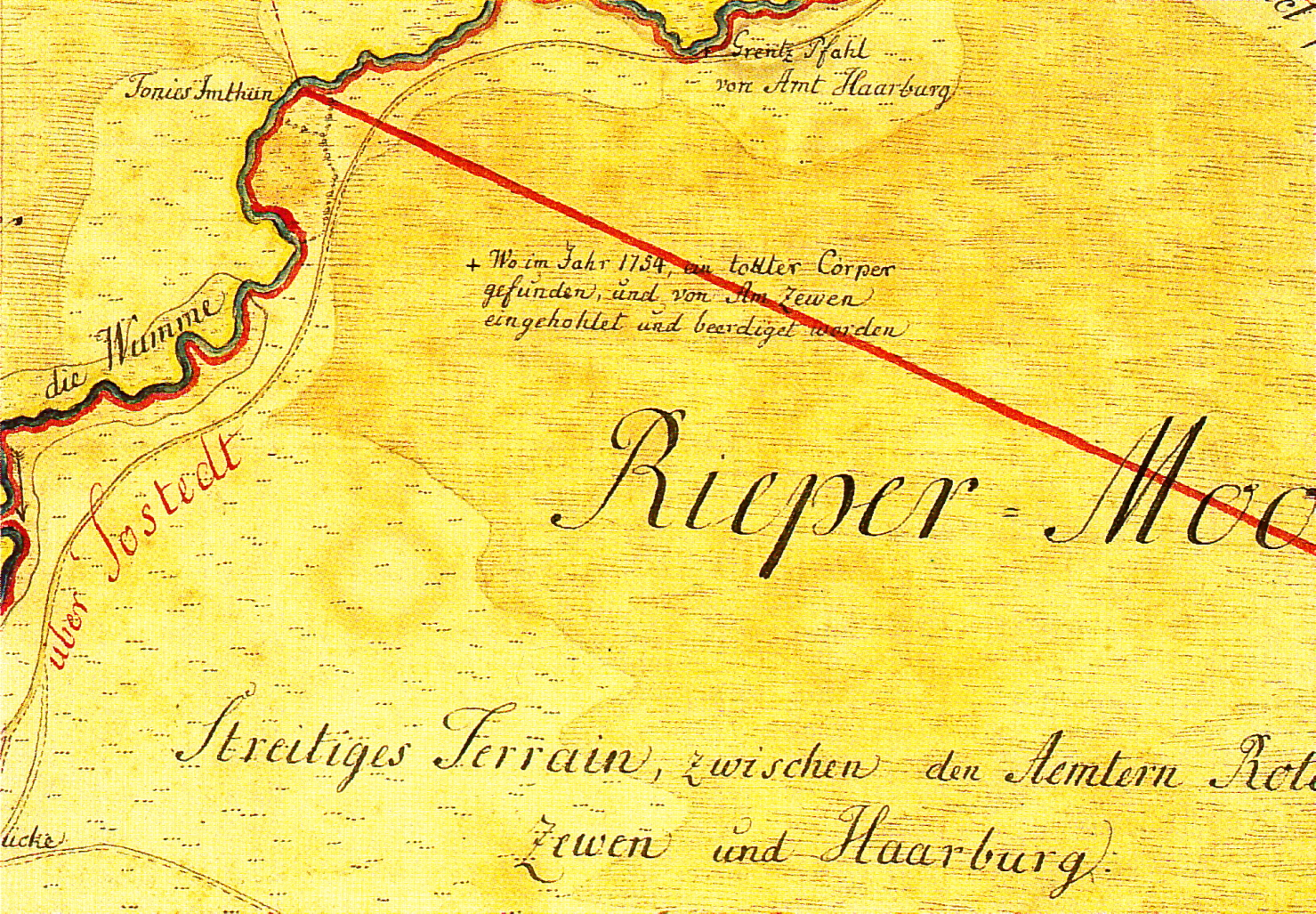 Detail of topographic map Lauenbrück No. 29 of Kurhannoversche Landesaufnahme with notice of the find of the Rieper Moor bog body of 1754.